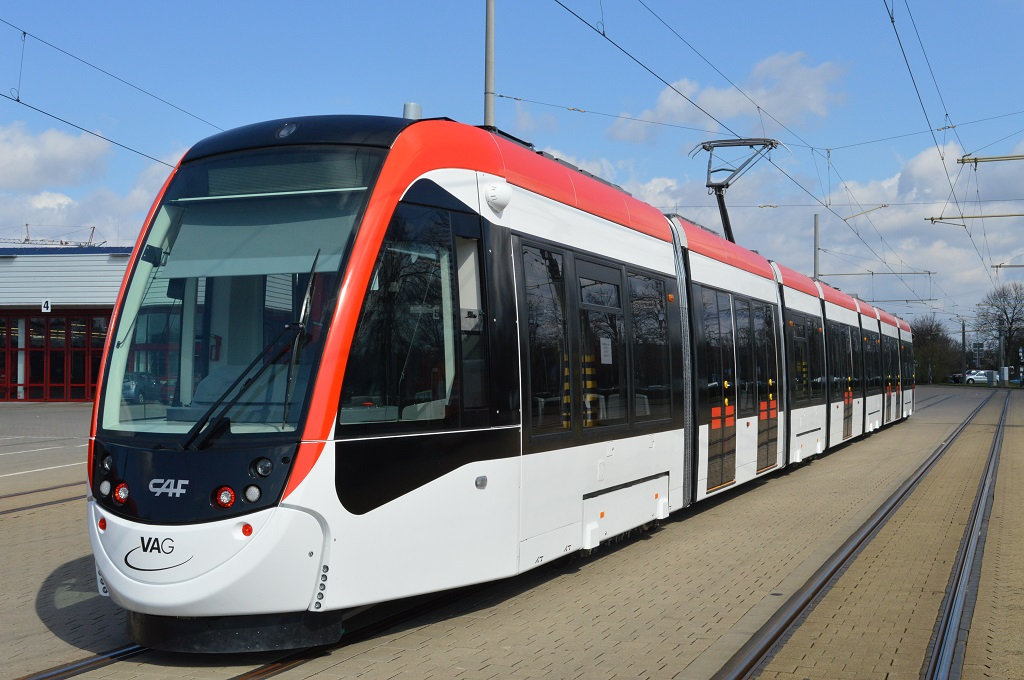 CAF Urbos in Freiburg im Breisgau, Germany.